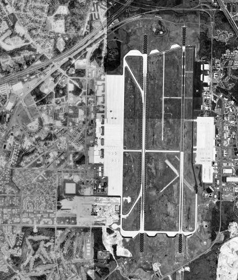 USGS digital orthophoto of Andrews Air Force Base in Camp Springs, Maryland, United States.